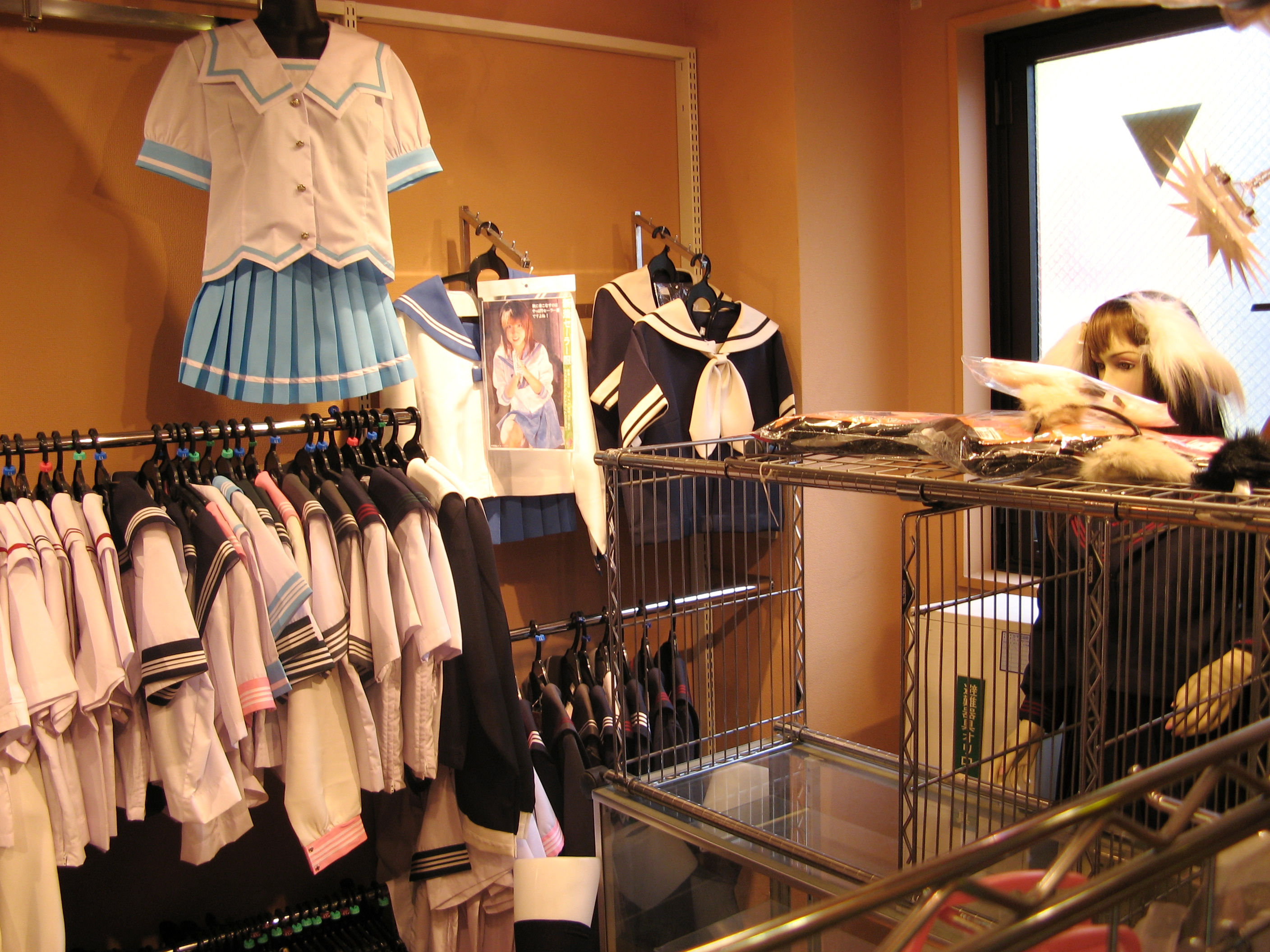 School girl dresses in a store in Akihabara. April 2006.